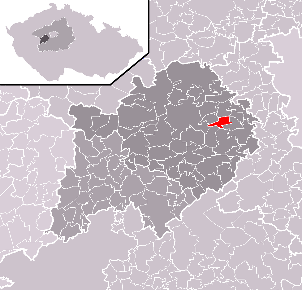 Location of Bubovice municipality within Beroun District and administrative area of Beroun as a Municipality with Extended Competence.